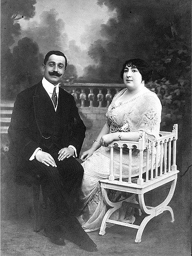 Hamdiye Ayse Sultan with her husband, 1900s.